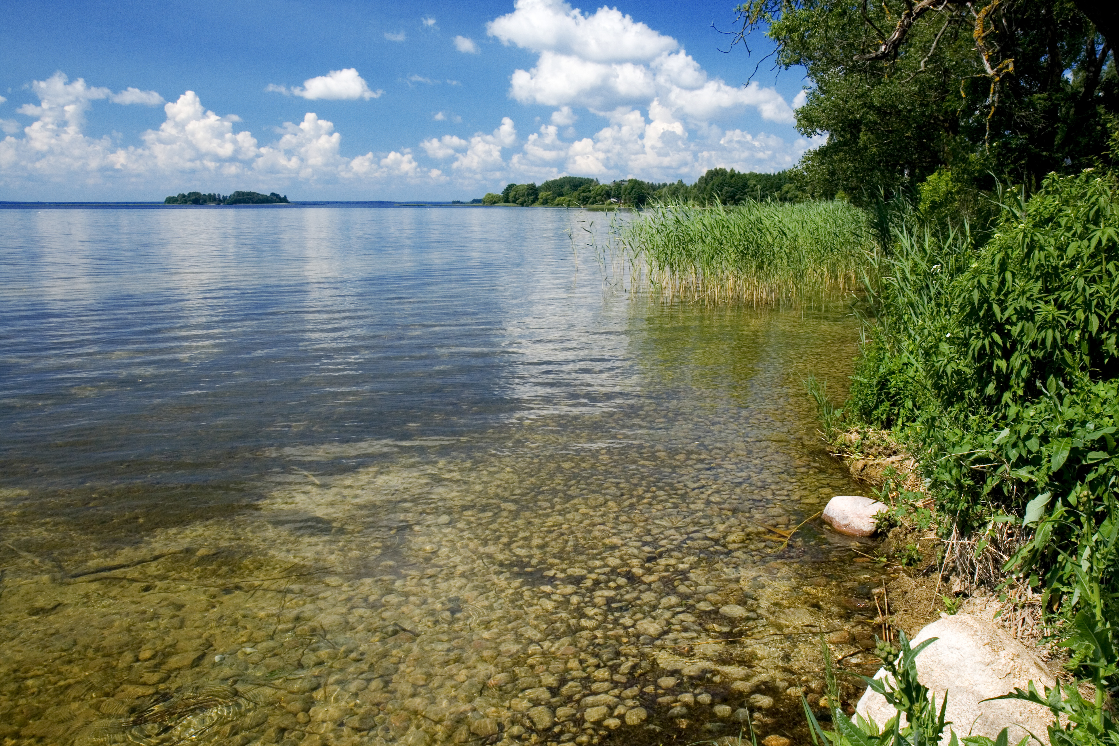 Lake Narach (Narač), Belarus. Беларуская (тарашкевіца): Возера Нарач, Беларусь.